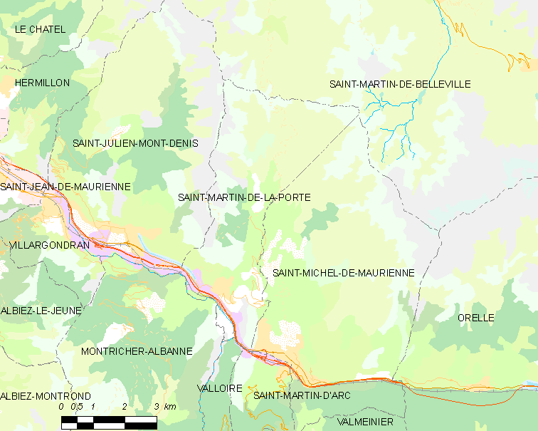 Map of French municipality